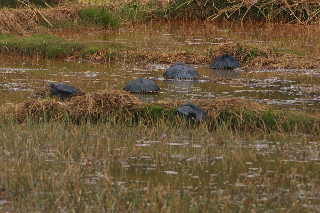 Black Herons (Egretta ardesiaca) canopy feeding east of Antananarivo, Madagascar